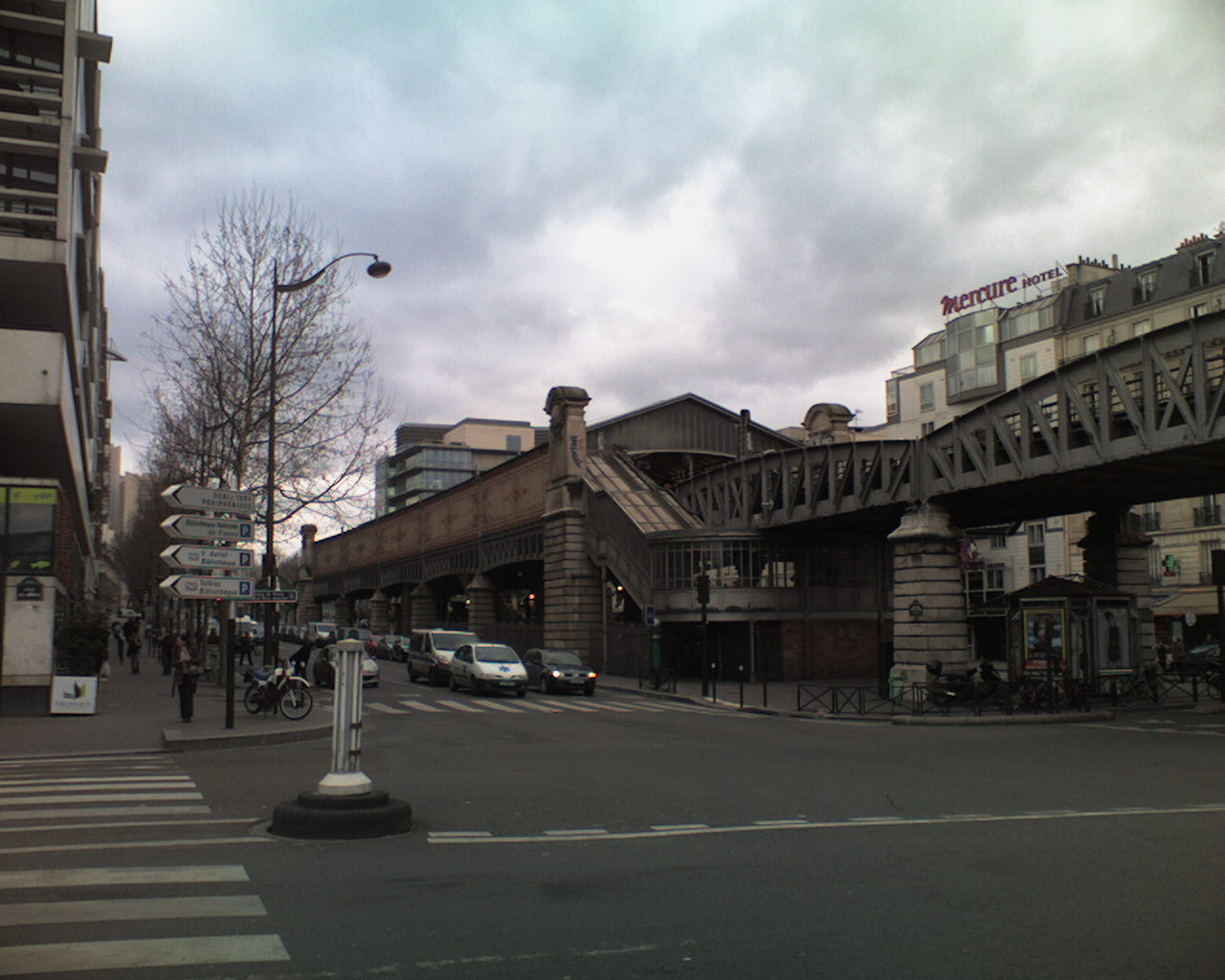 The Quai de la Gare stop of Paris Metro, ligne 6